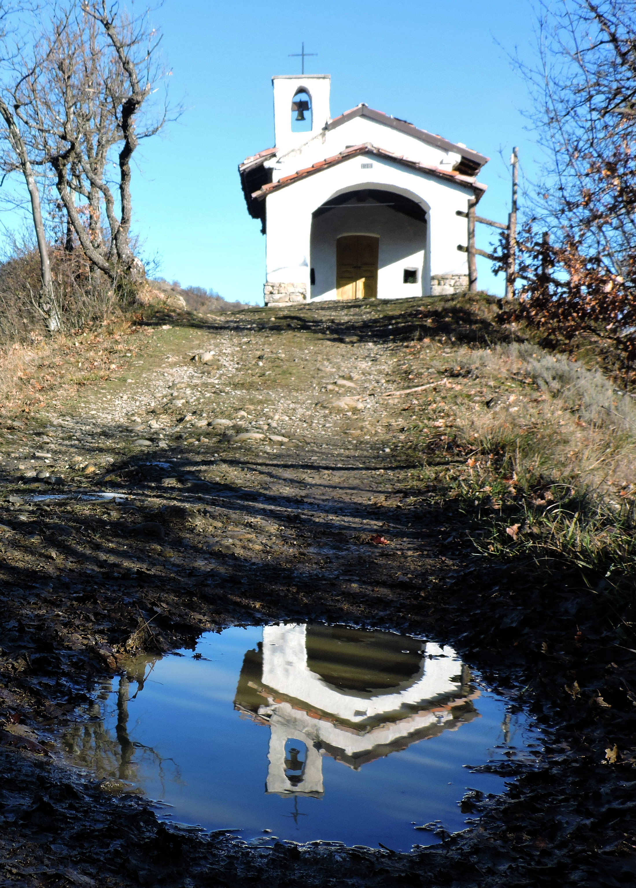 Rivarossa (Borghetto di Borbera): St. Mary's chapel